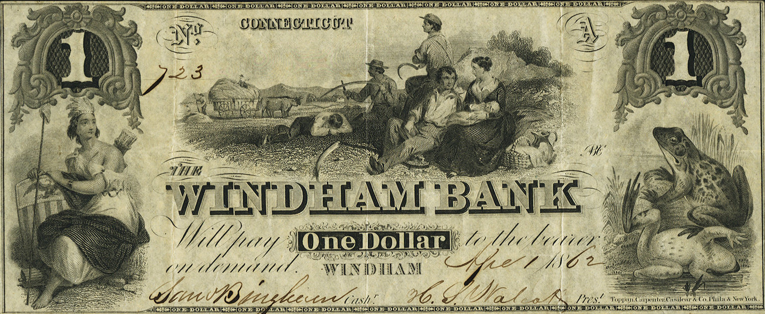 This $1.00 (one dollar) banknote was produced by Windham Bank in Windham, Connecticut. The vignette of a dead frog with another frog sitting on top of it is a reference to the 1754 Battle of the Frogs. The bank was chartered in 1832 and included the frog vignette on its banknotes through the 1870s.